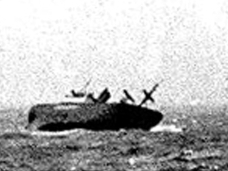 Picture taken form USNS General A.W. Greely (T-AP-141), circa 29 December 1951 showing the Flying Enterprise with heavy heel. Source: US NAVY